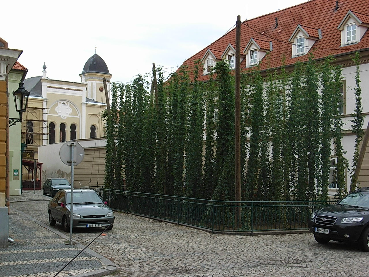 Hop garden in main square of Žatec ("the smallest hop yard in the world") commemorates one of main sources of prosperity of this town which is a centre of hop growing in the Czech Republic.